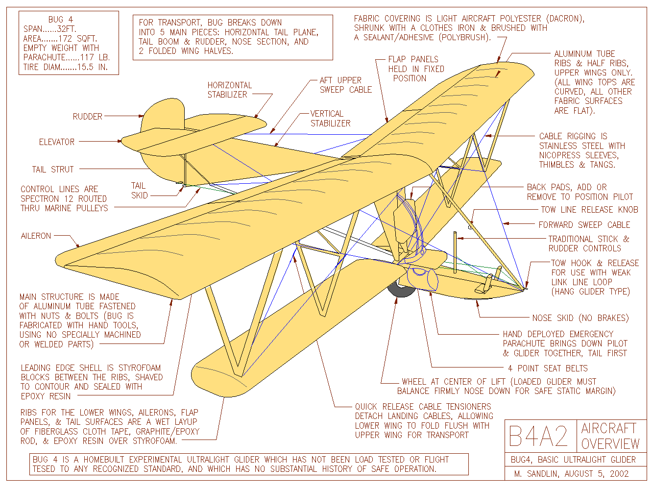 Technical drawing of the Sandlin Bug 4 glider taken from the set of public domain drawings. Converted from .gif to .png file format.